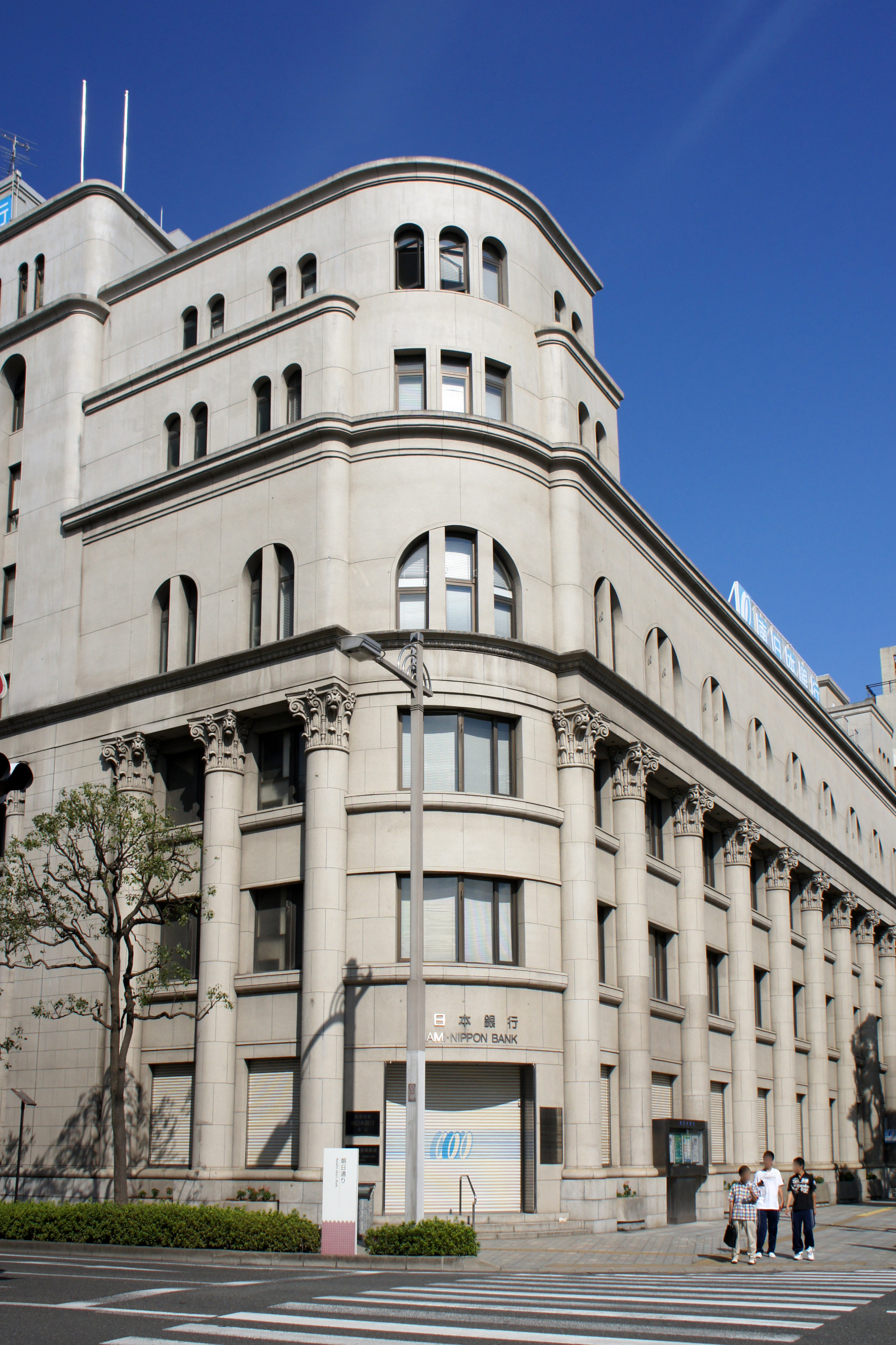 Bank_of_Minami-Nippon_headquarters in Kagoshima, Kagoshima prefecture, Japan.